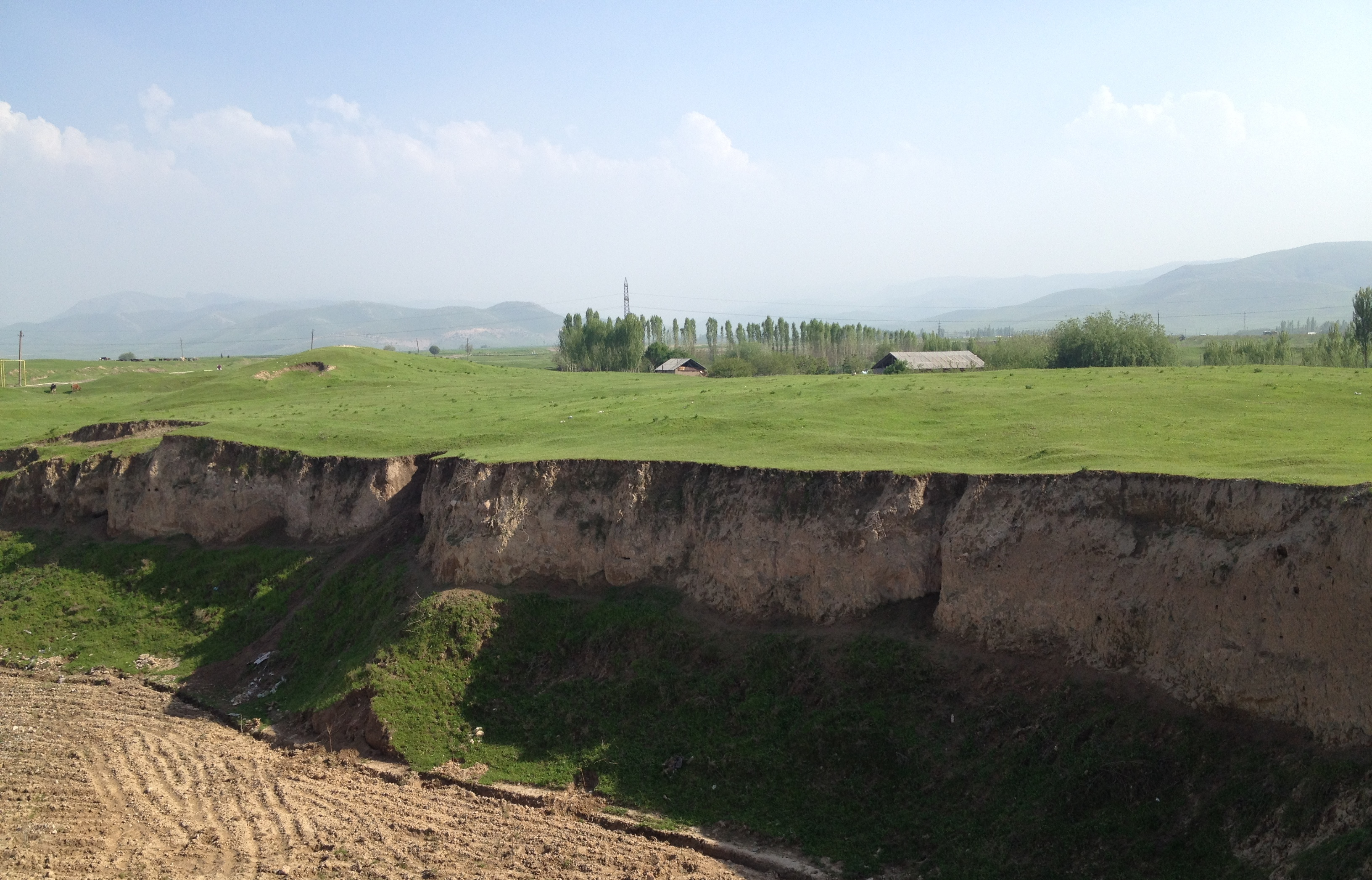 Ruins of ancient city Tunket, the capital за Ilaq Oʻzbekcha/ўзбекча: Tunkat qadiniy shahri (Iloq poytaxti) xarobasi